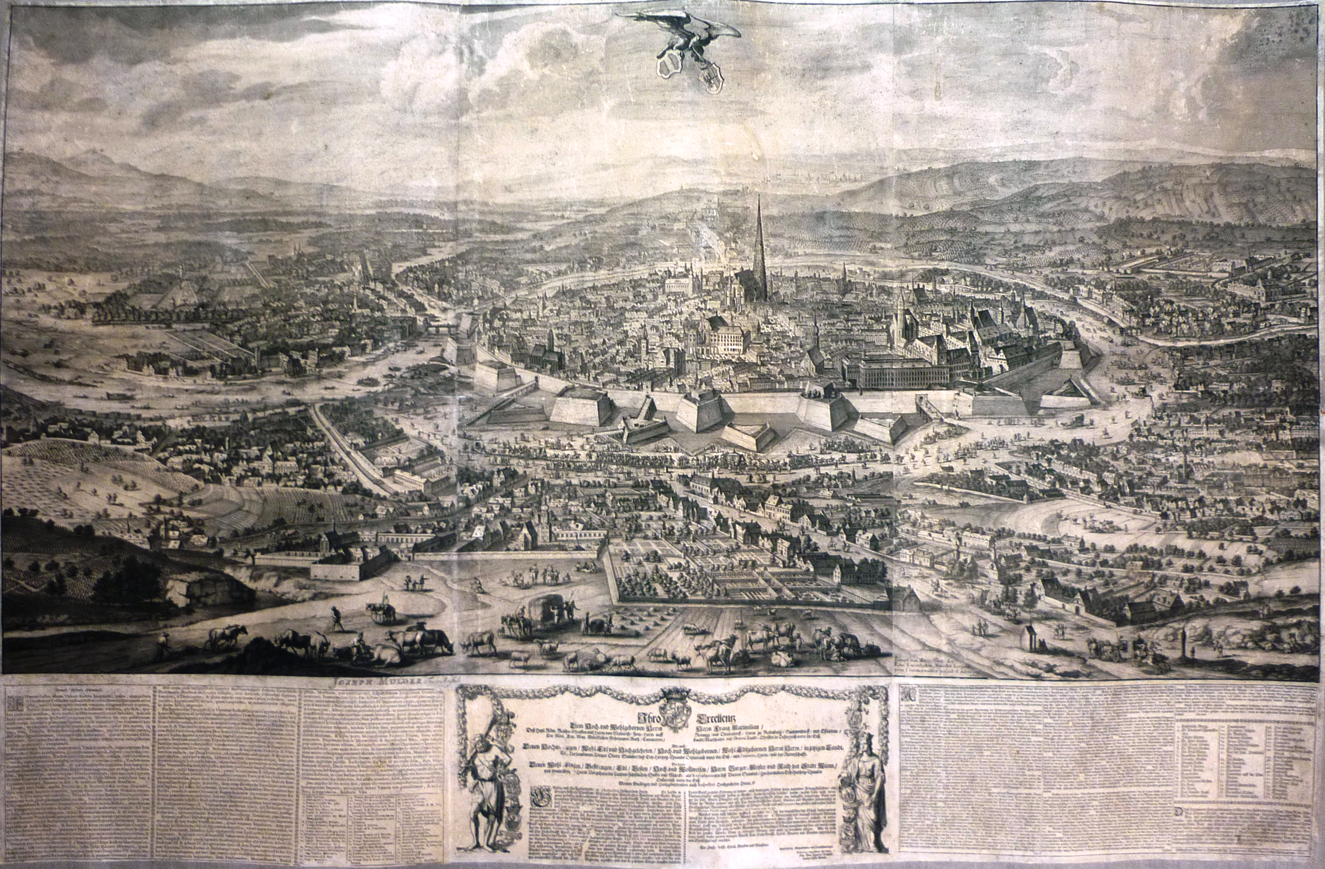 Birds eye view of Vienna before the 2nd siege in 1683